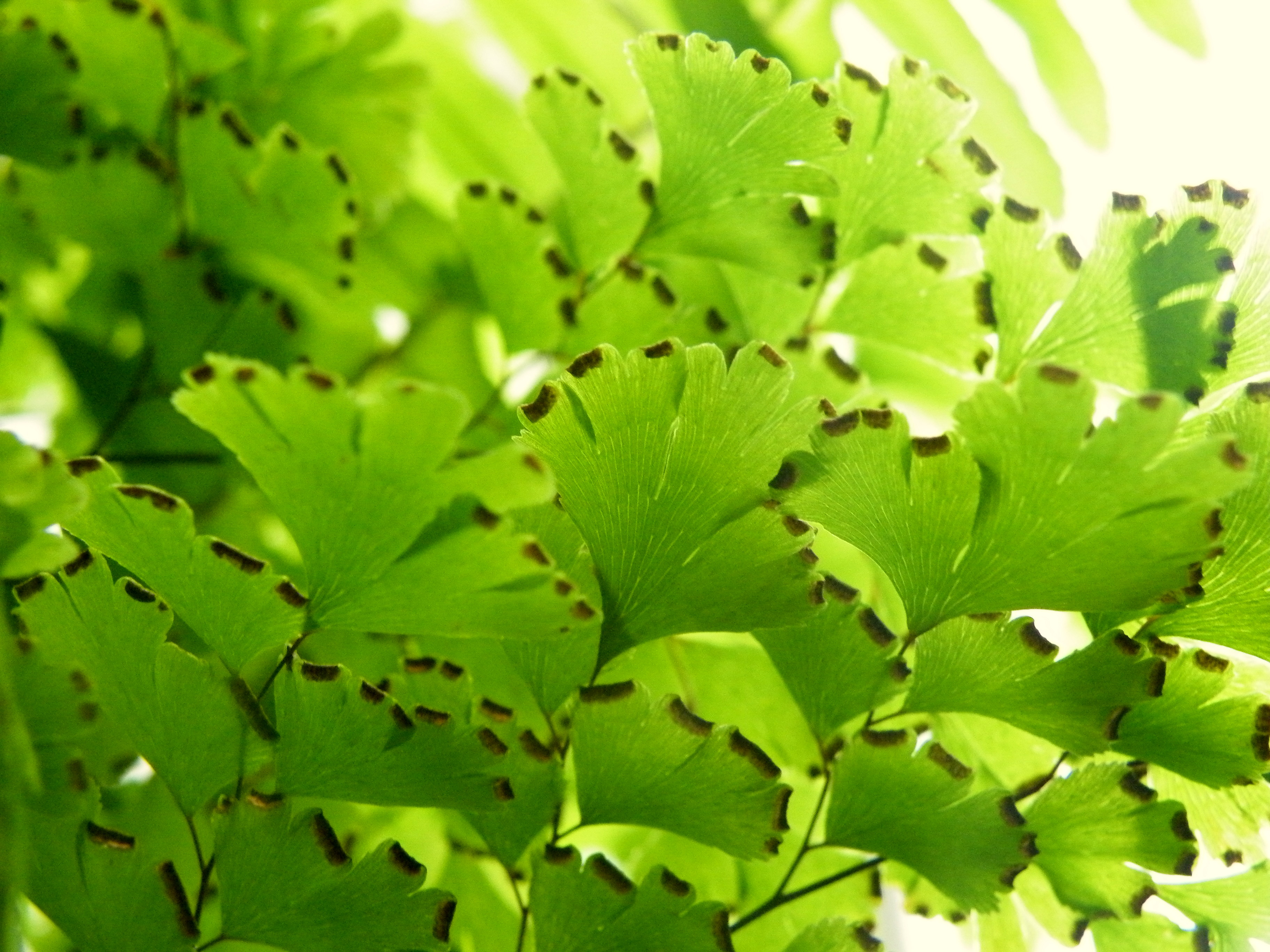 Adiantum capillus-veneris grows from 6 to 12 in (15 to 30 cm) in height; its fronds arising in clusters from creeping rhizomes 8 to 27.5 in (20 to 70 cm) tall, with very delicate, light green fronds much subdivided into pinnae 0.2 to 0.4 in (5 to 10 mm) long and broad; the frond rachis is black and wiry. This media file is produced by Wikipedian in Residence in Botanical Garden Jevremovac in 2015.